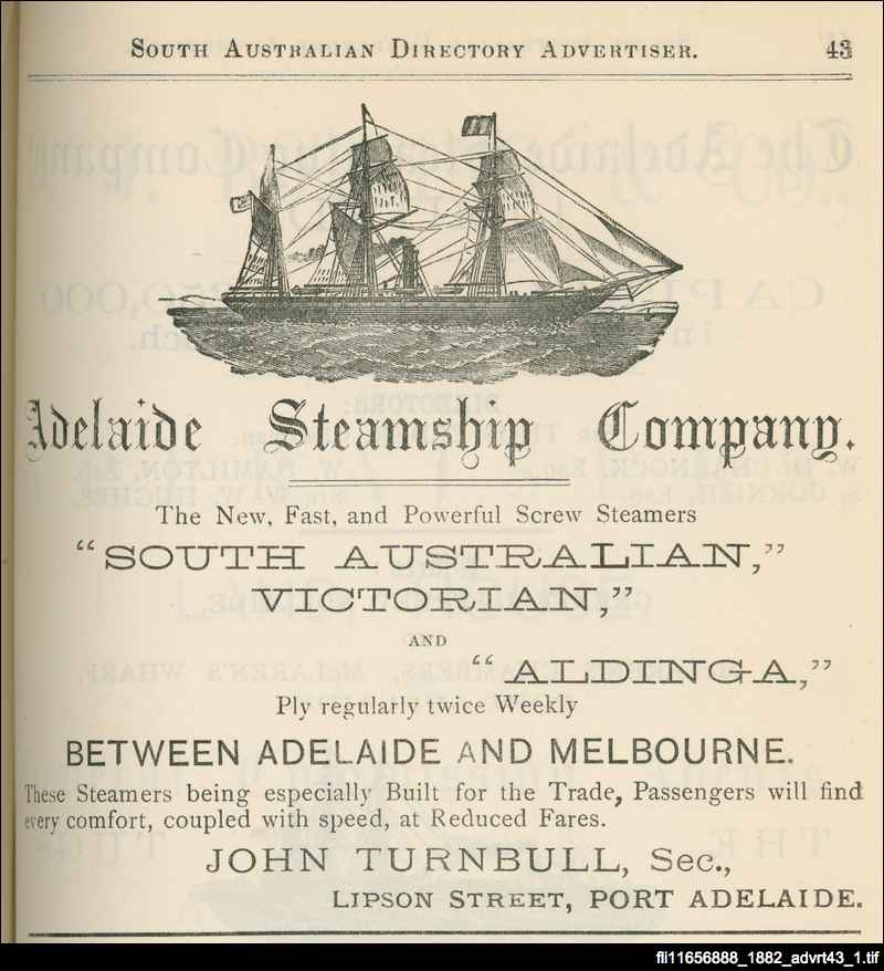 Newspaper adverstisement printed and published by J. Williams, Stationer in 1882.